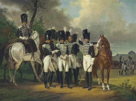 The commander of the rgt of " Grenadiers à cheval " of the Royal Guard